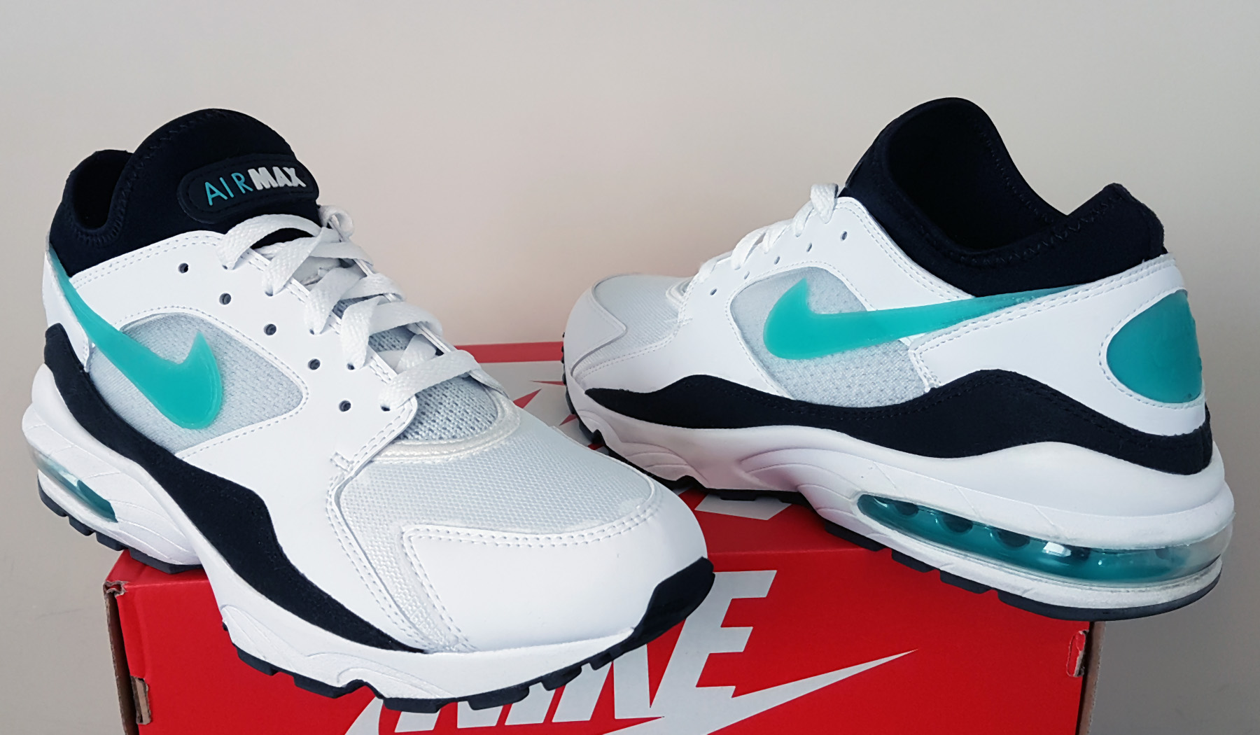 Nike Air Max 93 in the original "Cactus" colorway. Visibile air unit around the heel.